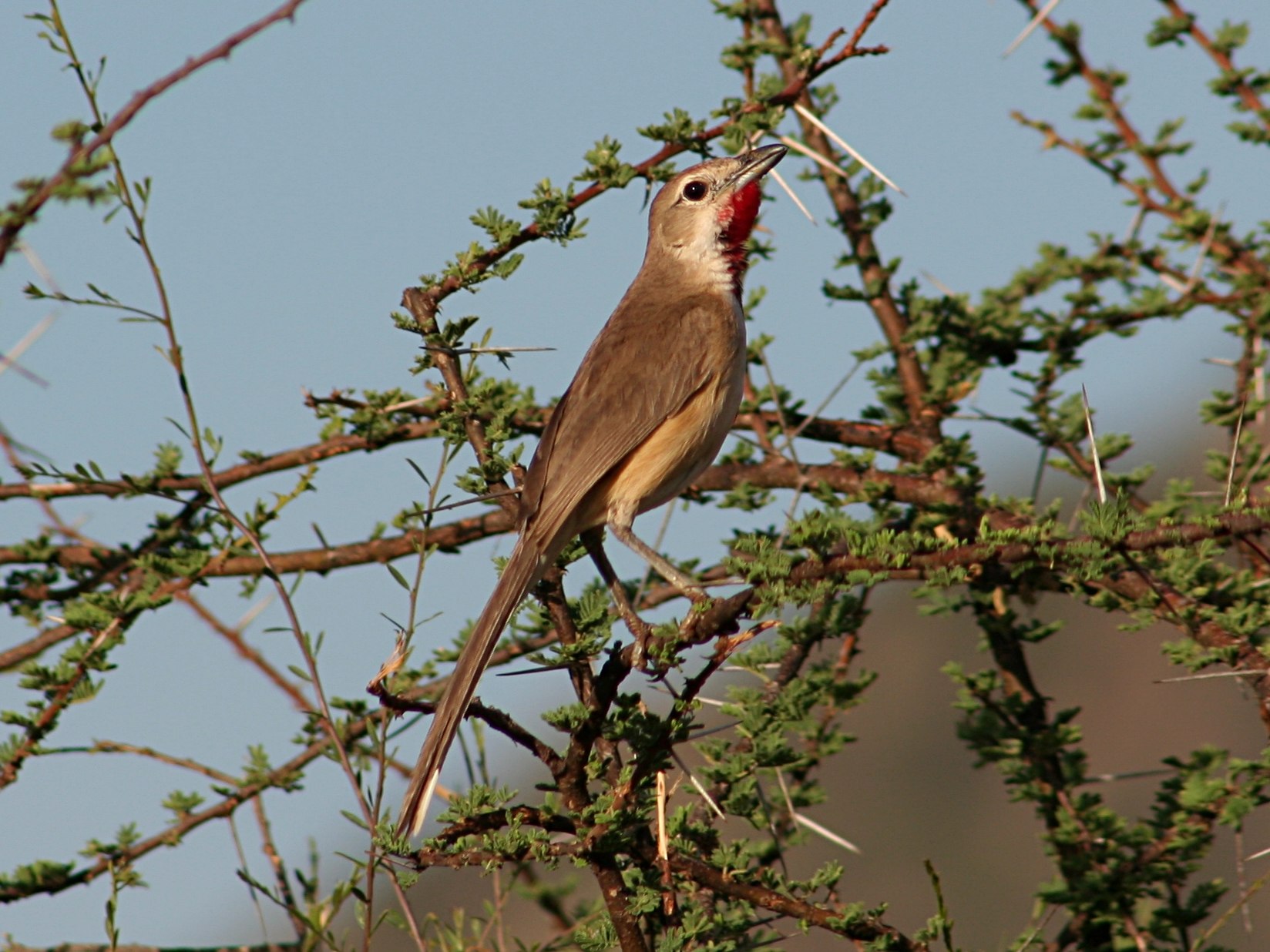 Photo of a Rosy-patched Bush Shrike (Rhodophoneus cruentus), Samburu National Reserve, Kenya